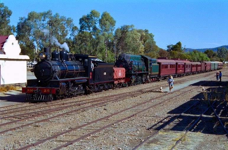 Former Commonwealth Railways locomotive NM 25 leads former Western Australian Government Railway locomotive W 916 ("disguised" as Silverton Tramway locomotive W 22) and consist at Quorn Station. The consist consists of South Australian Railway "long tom" and "short tom" carriages and goods brake van, South Australian Railways Broken Hill Express sleeping carriages, and Commonwealth Railways sitting and special service carriages. Train from left to right: NM 25, NTSA 602, W 22, 207, Sturt, Light, 74, 90, 4894, Nilpena, Alberga, Coonatto, NIA 36, NSS 34.